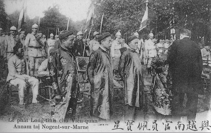 Honor ceremony at Vietnam 1935